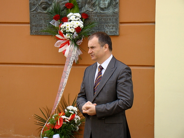 1st of May in Sanok